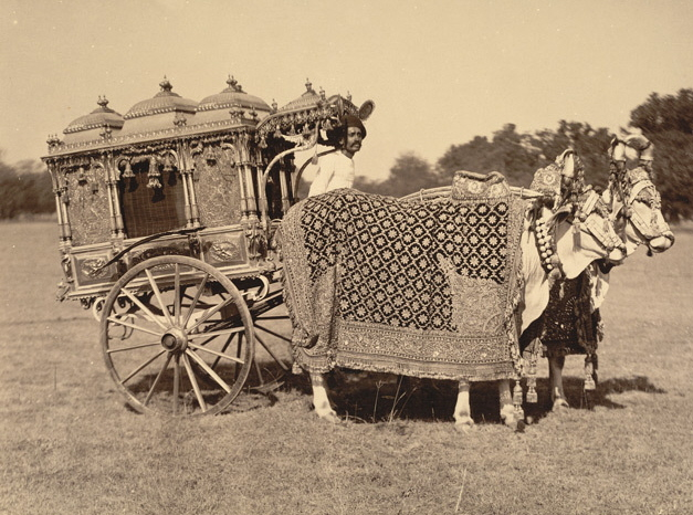 Silver Zenana carriage [Vadodara] 1895, Photograph of a silver zenana carriage at Baroda, Gujarat from the Curzon Collection, taken by an unknown photographer during the 1890s. The enclosed carriage ensured the seclusion of female members of the royal household when travelling. The confinement of Indian women within the family home or behind a veil was known as purdah, and zenana was the name given to segregated women’s quarters. The lavishly decorated two-wheeled carriage is drawn by caparisoned bullocks and belonged to Gaekwar Sayaji Rao III (ruled 1875-1939), 12th Maharaja of Baroda. He owned a collection of exotic transport, which also included golden carriages and a miniature carriage drawn by deer. Oriental and India Office Collection, British Library.